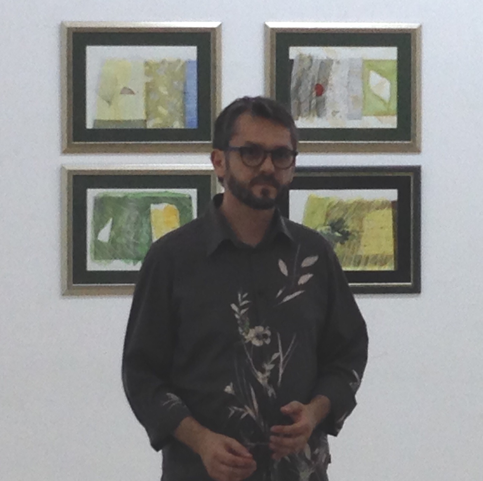 Marko Višić. Painter from Serbia. Niš, 30.8.2016.Niš.